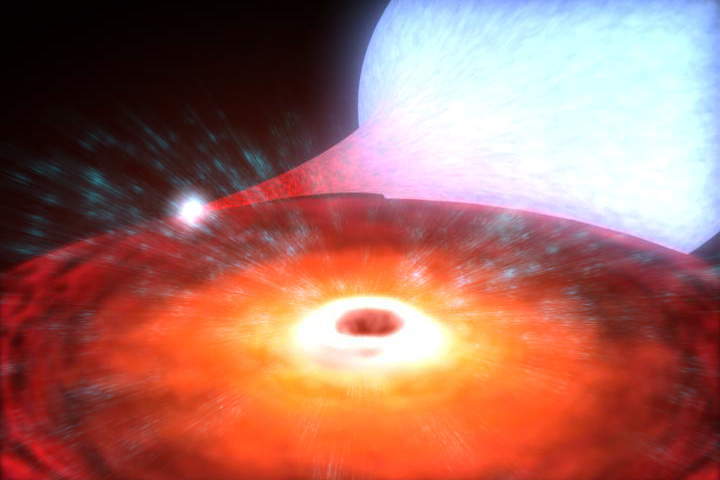 The lowest-mass known black hole belongs to a binary system named XTE J1650-500. The black hole has about 3.8 times the mass of our sun, and is orbited by a companion star, as depicted in this illustration.